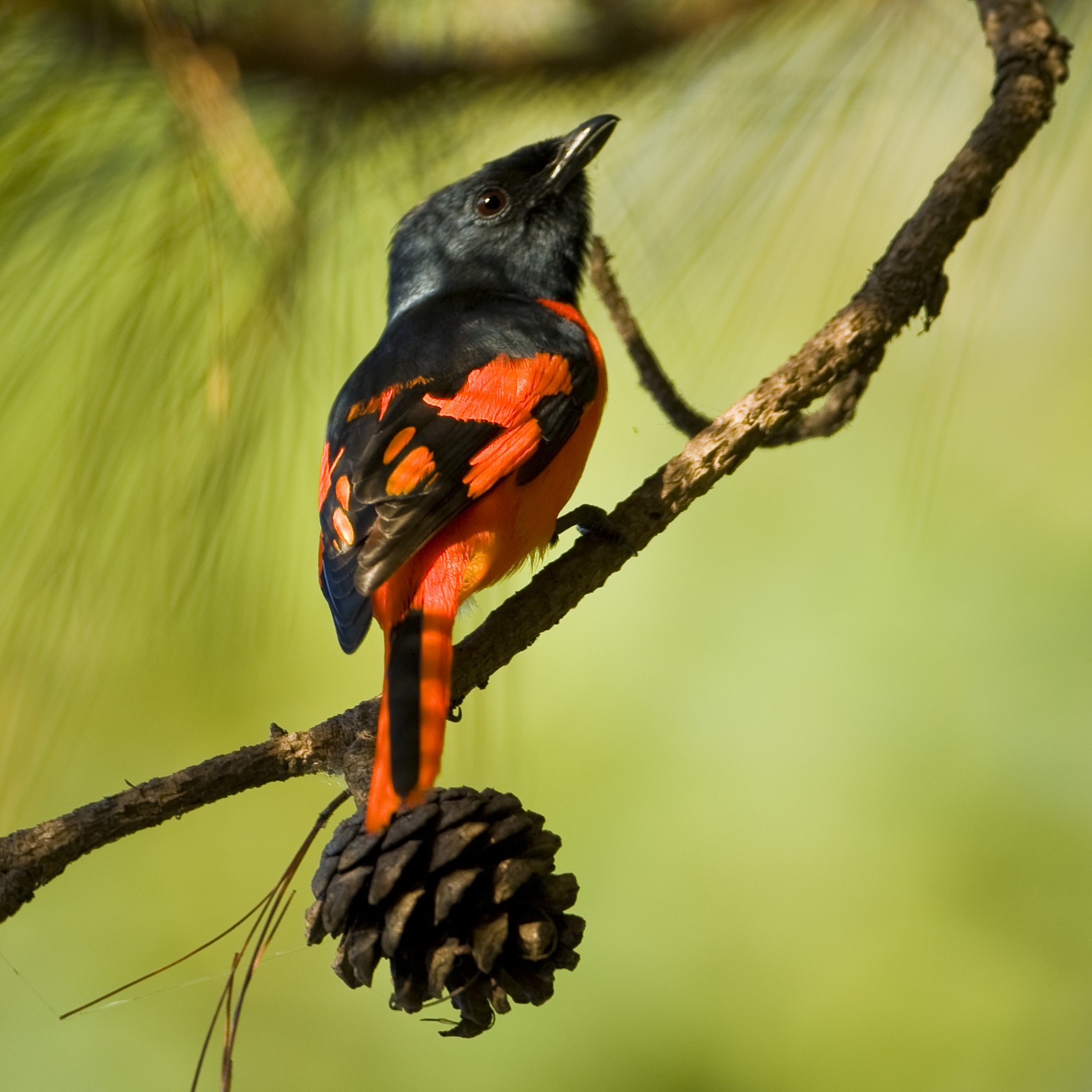 Doi Inthanon, Thailand - around 700 metres.